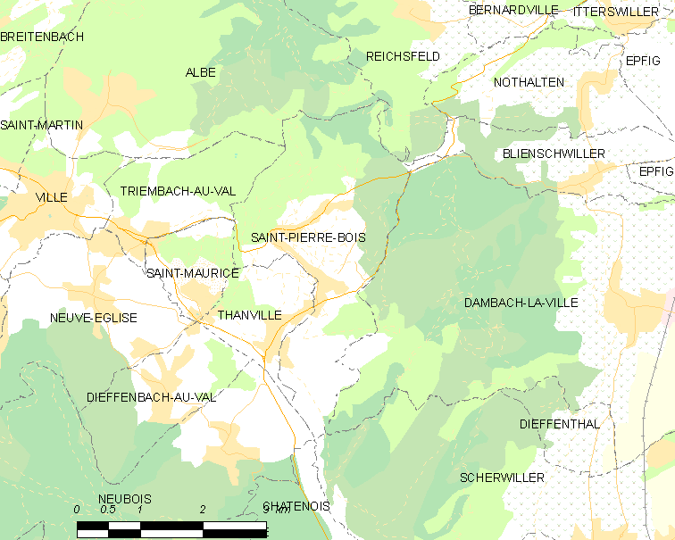 Map of French municipality